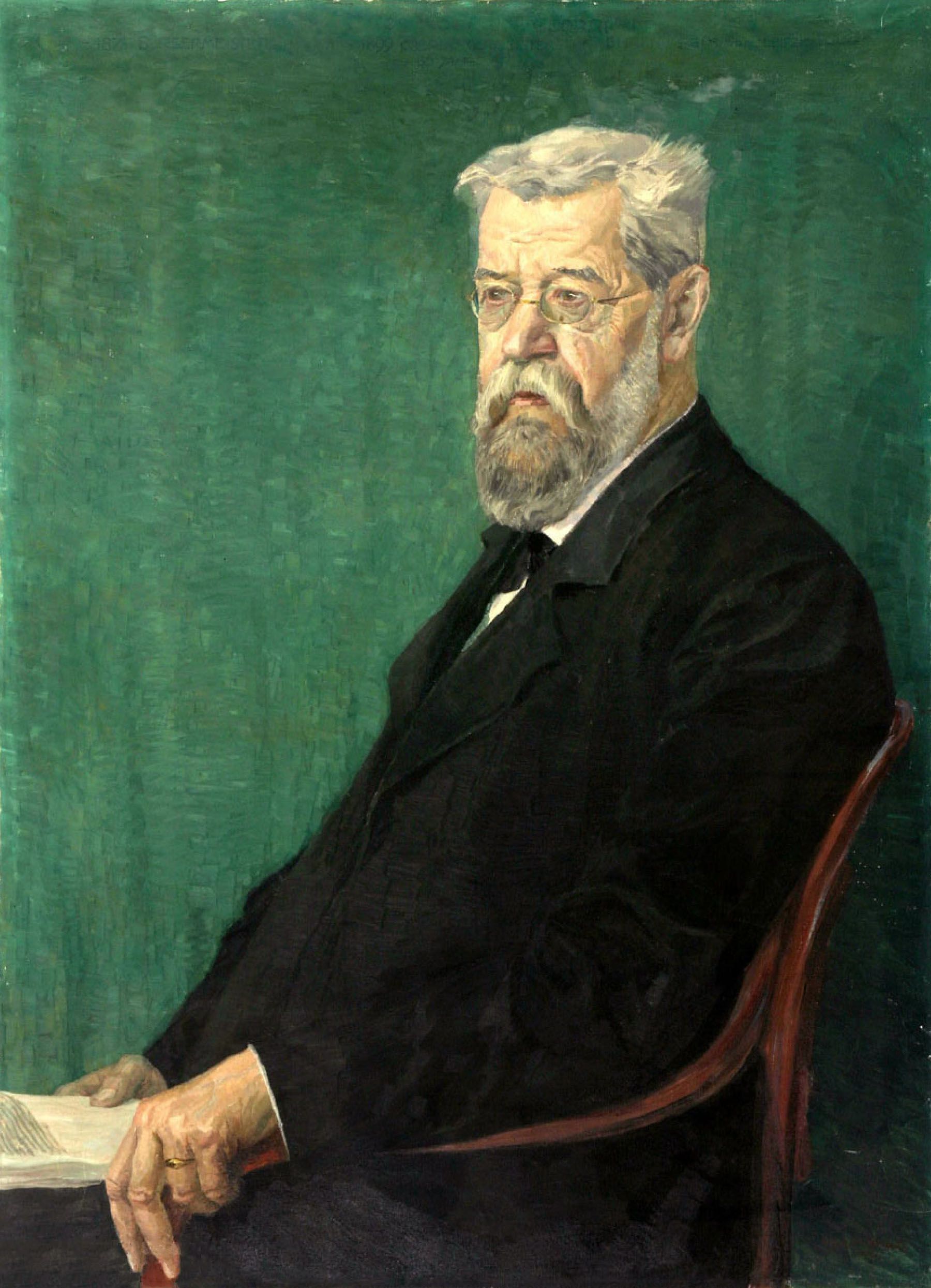 Otto Georgi (1831–1918), German lawyer and Reichstag representative, “Oberbuergermeister” (mayor) in Leipzig, oil of canvas, 106 × 75 cm